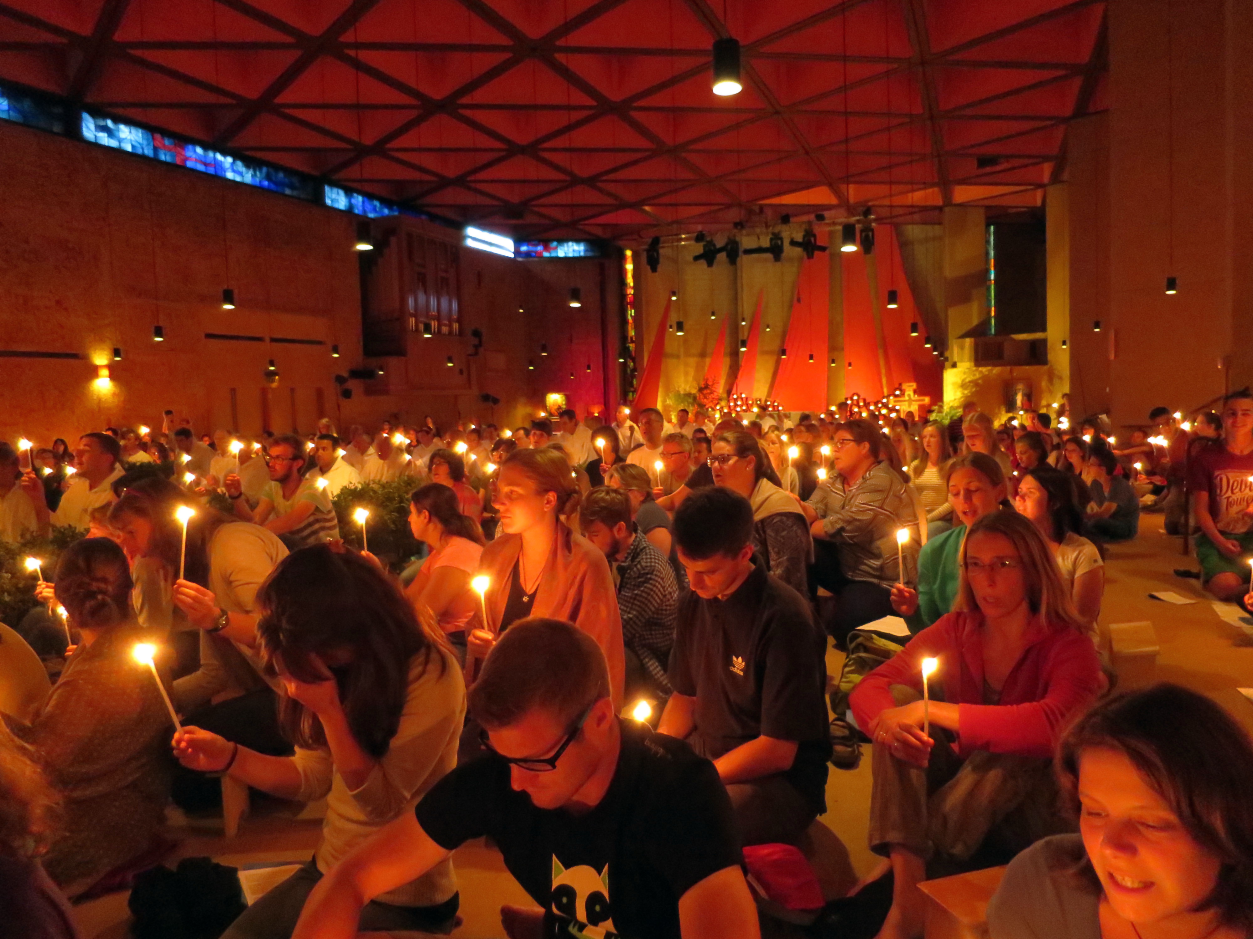 Eveningprayer in Taizé with candles